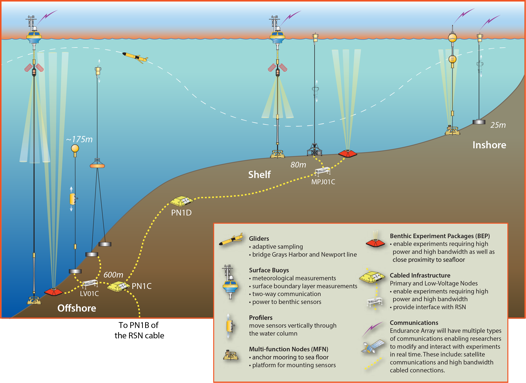 A diagram of the Endurance Ray for the wiki page on the Ocean Observations Initiative.